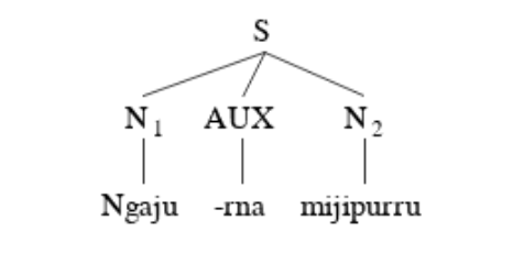 This tree shows the basic sentence structure of a Warlpiri sentence. Warlpiri is a non-configurational language and this is shown by the free word order within the tree.